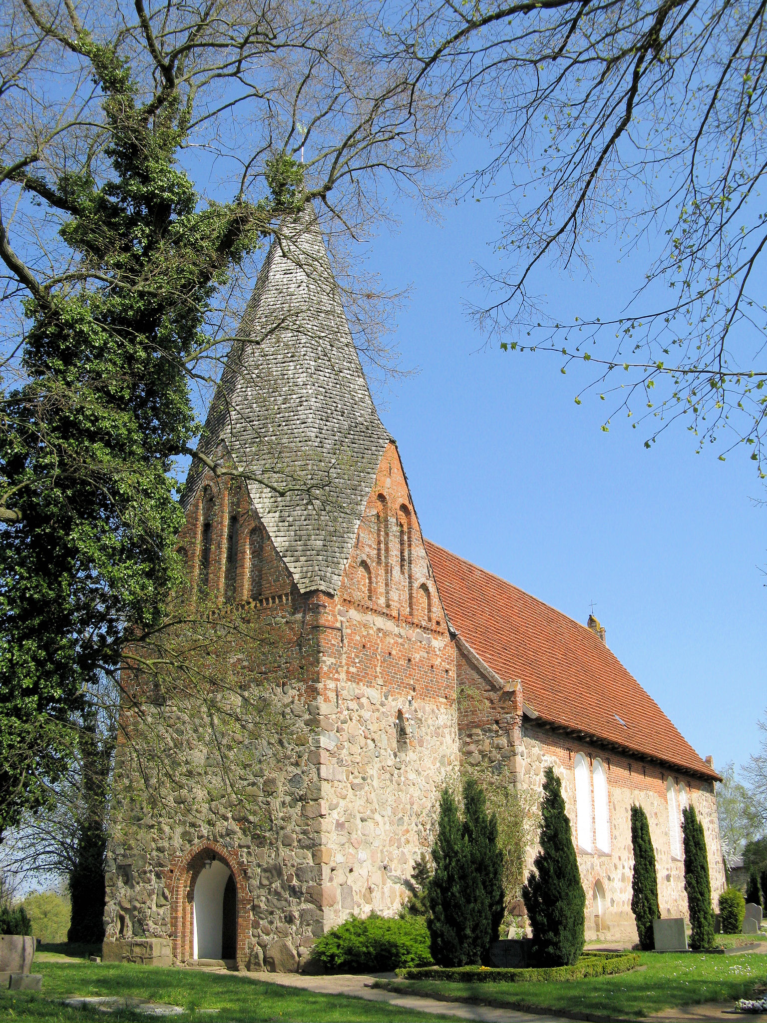 Church in Witzin, disctrict Parchim, Mecklenburg-Vorpommern, Germany